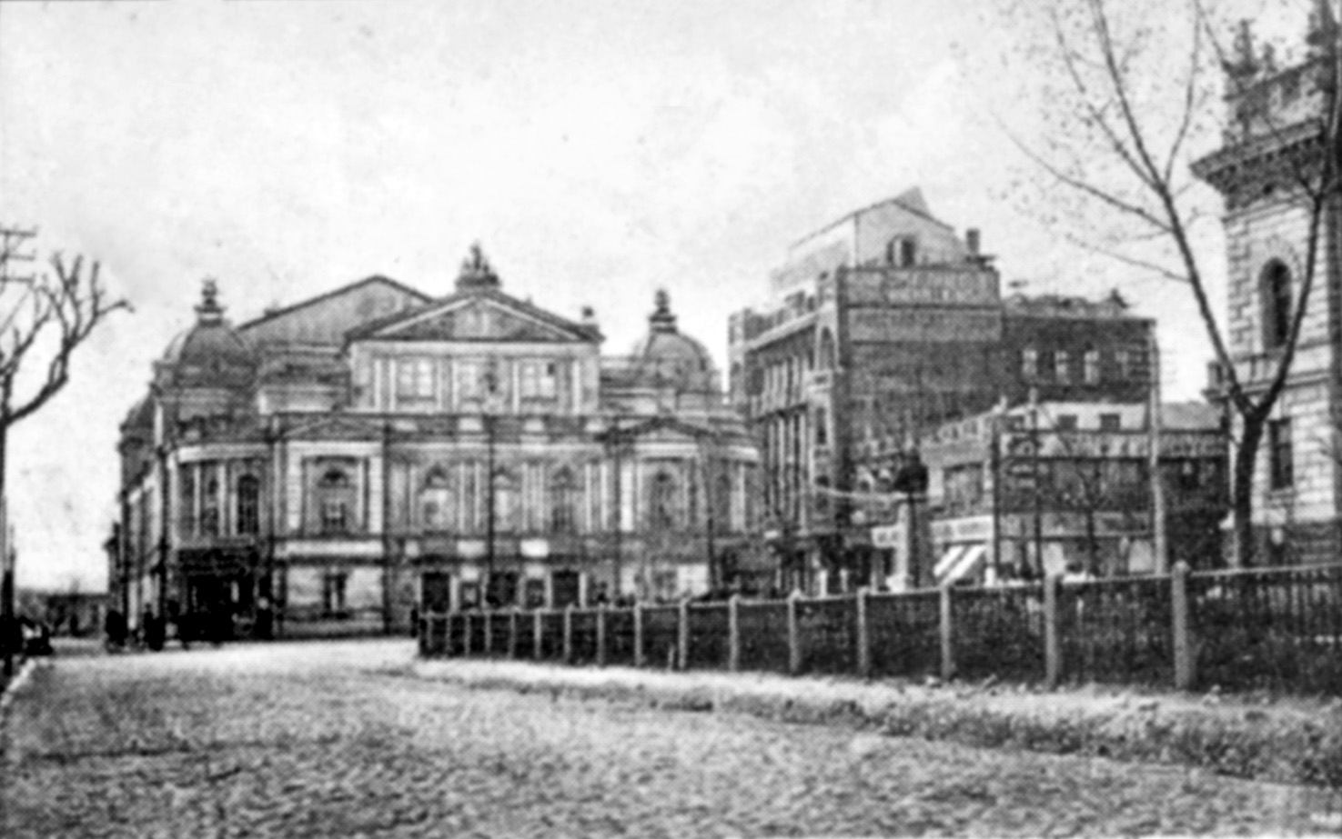 Old picture